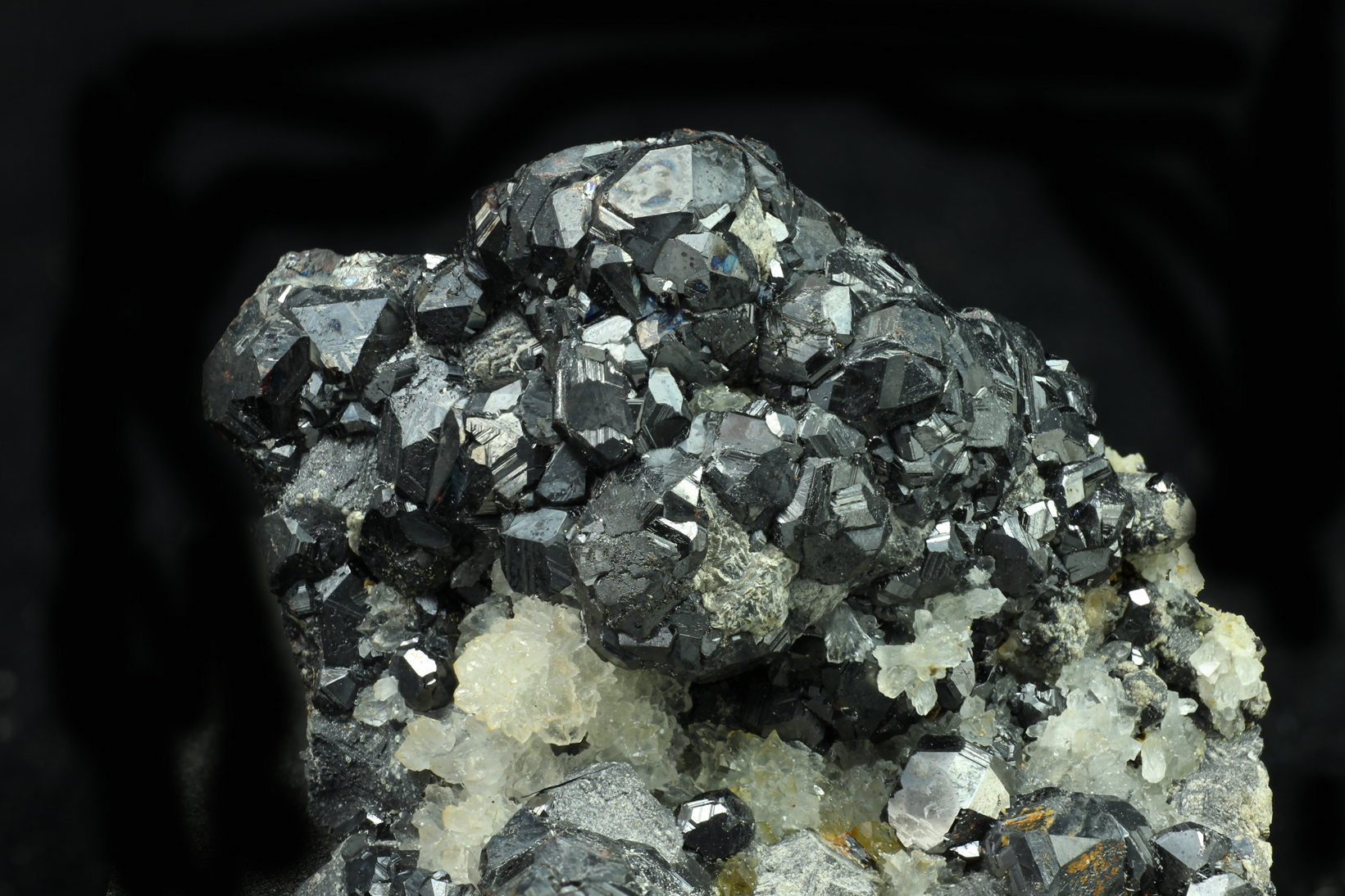 Sfalerite. Túnel José Maestre. Portmán, Cartagena, Murcia, Spain. Photo J. Callén